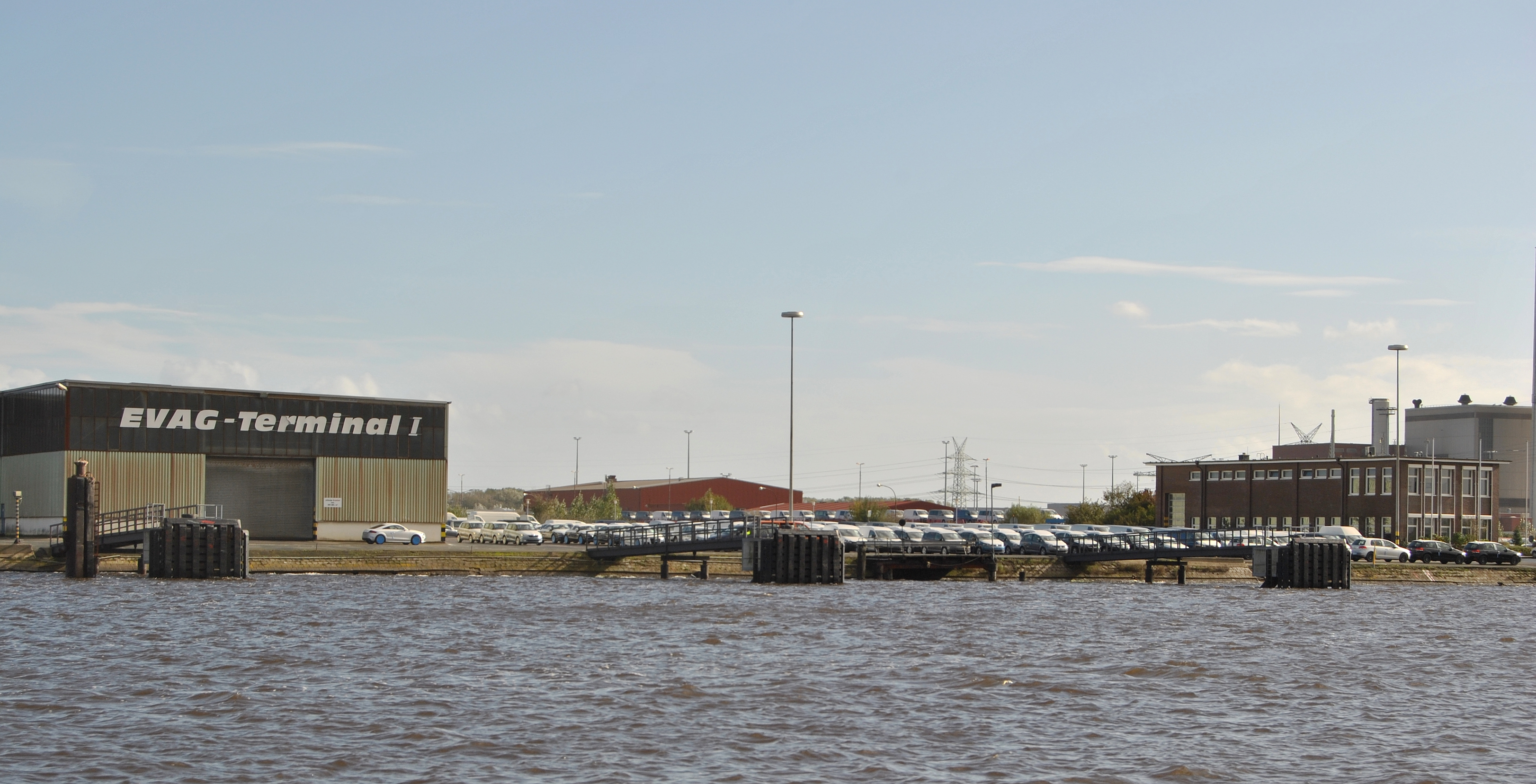 The EVAG Terminal 1, a berth and pier in the habour of Emden, Germany